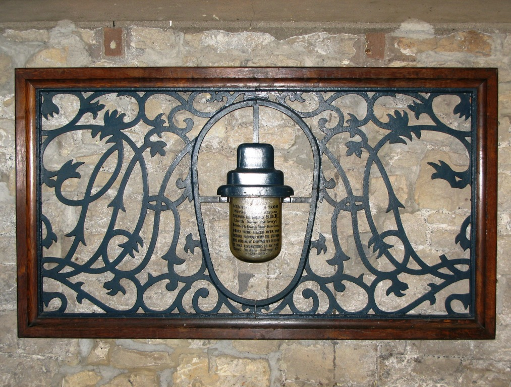 This decorative screen was originally mounted above the doors to Newton Abbot railway station in Devon, England. This was built for the South Devon Railway and the initials 'SDR' can be read from either side. It is preserved in the railway museum at Swindon.